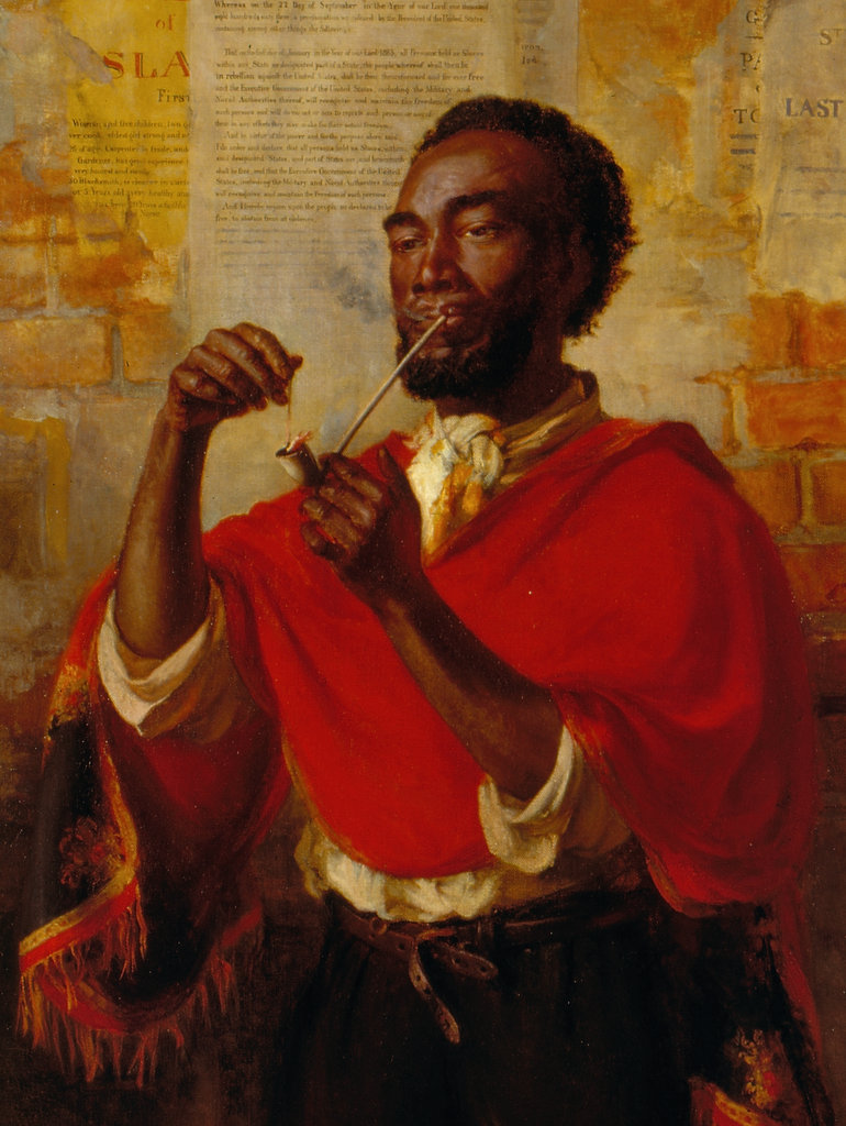 The Pipe of Freedom by Thomas Stuart Smith died 1869 it celebrates Abolitionism in the United Kingdom which influenced the USA